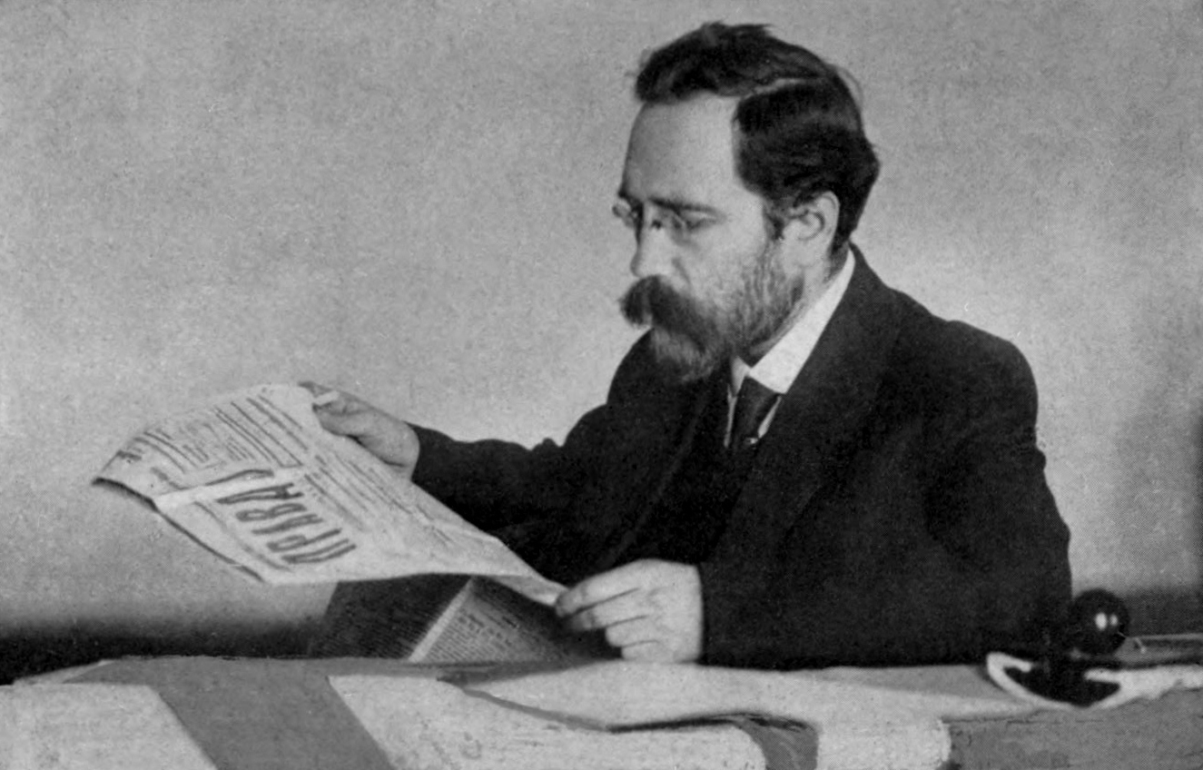 Lev Kamenev